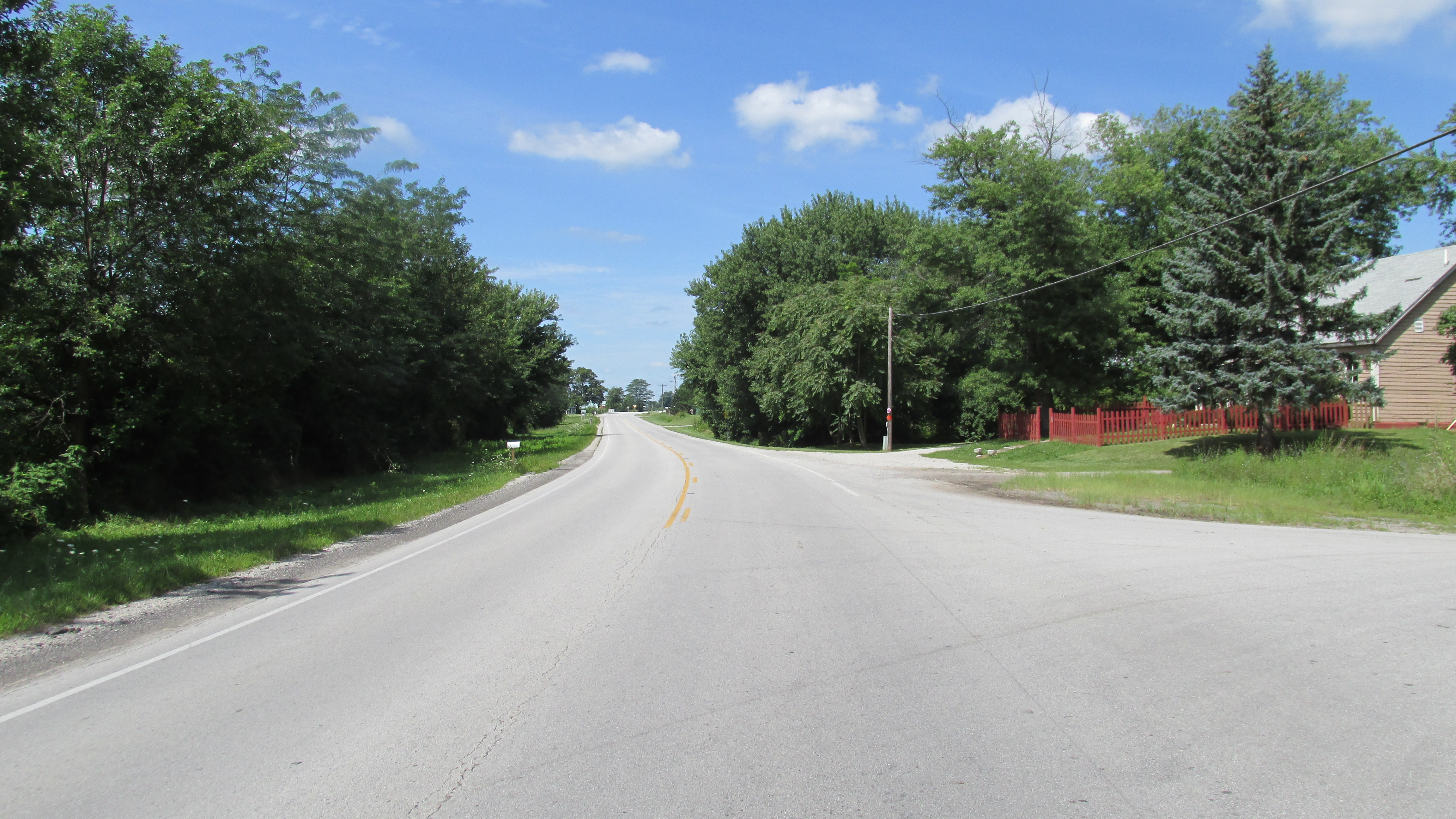 Looking west on US Highway 22 in Jasper Mills, Ohio.